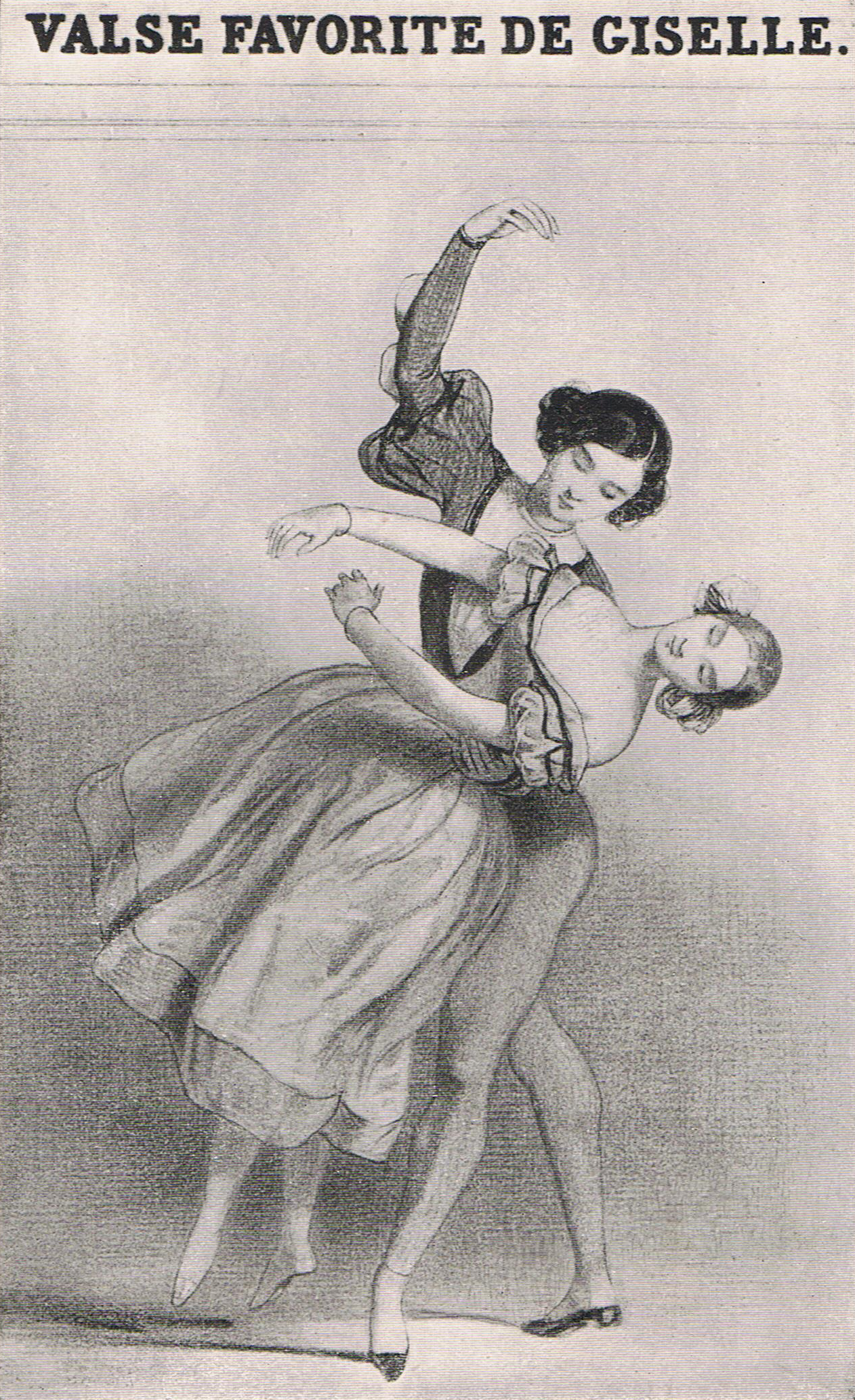 Carlotta Grisi and Lucien Petipa dansing the pas the deux from the 1841 ballet Giselle. Original image from the sheet music for the ballet (1841). Image reproduced from Ballet Panorama (1938), A.L. Haskell.